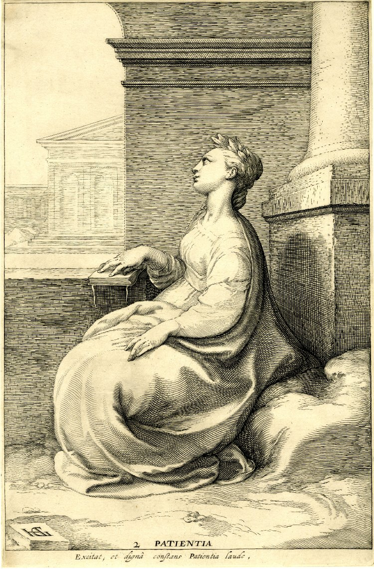 Three virtues. Plate 2: Patience, whole-length seated in left profile looking up, wearing a wreath and resting her hand on a book on a ledge, before a column. Title: "2 Patientia". In the bottom margin, the Latin inscription: "Excitat, et digna constans Patientia laude". Engraving on paper by Jan Saenredam after Hendrik Goltzius. Dimensions: weight = 365 millimetres; width = 242 millimetres. Location: British Museum, Department of Prints & Drawings. Museum collocation: D+F XVIc Mounted Roy. Museum number: 1857,0613.572. Acquisition date: 1857.